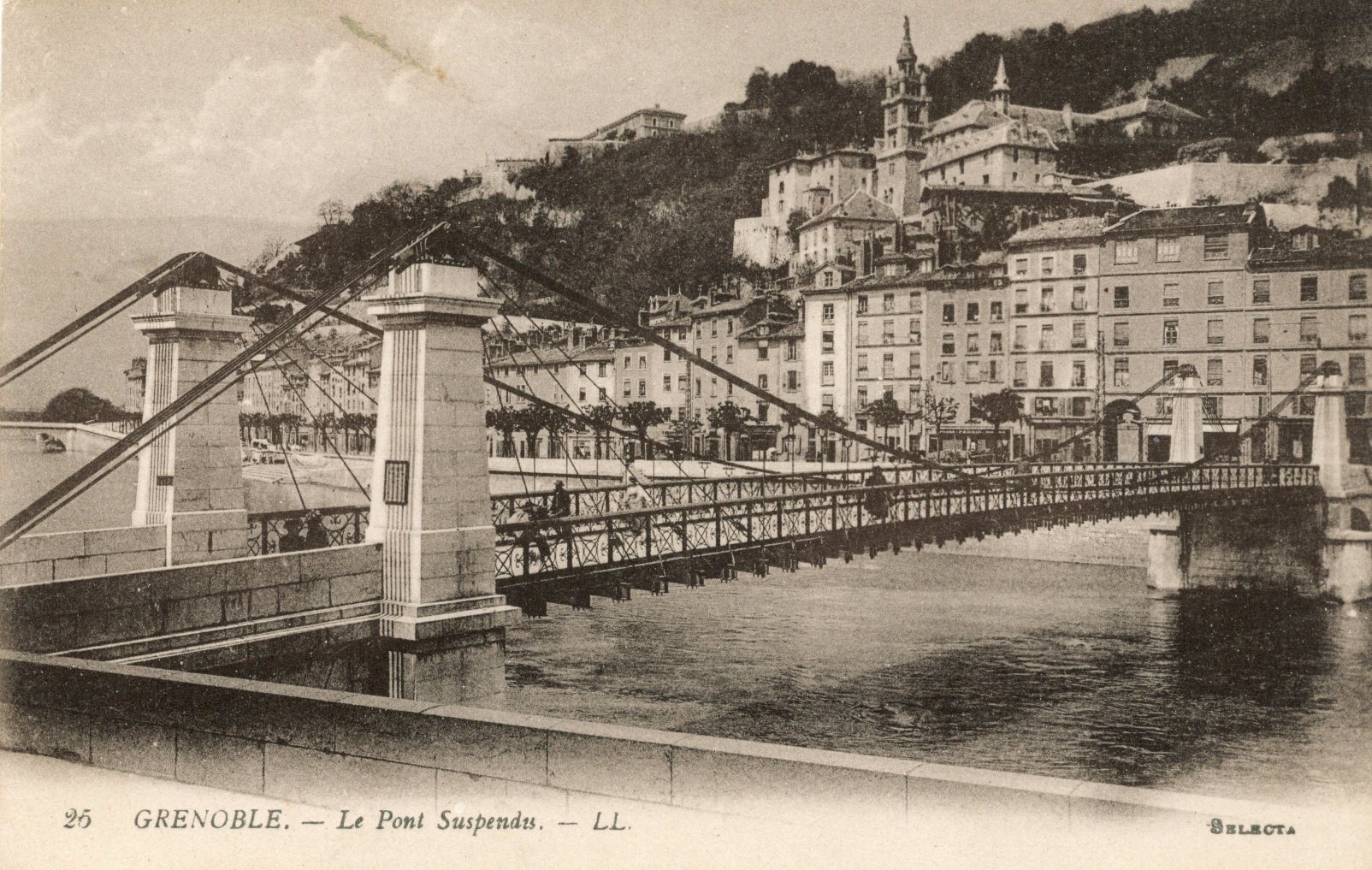 The "Pont Suspendu" (now St Laurent's bridge, pedestrianised ) the oldest bridge in Grenoble.